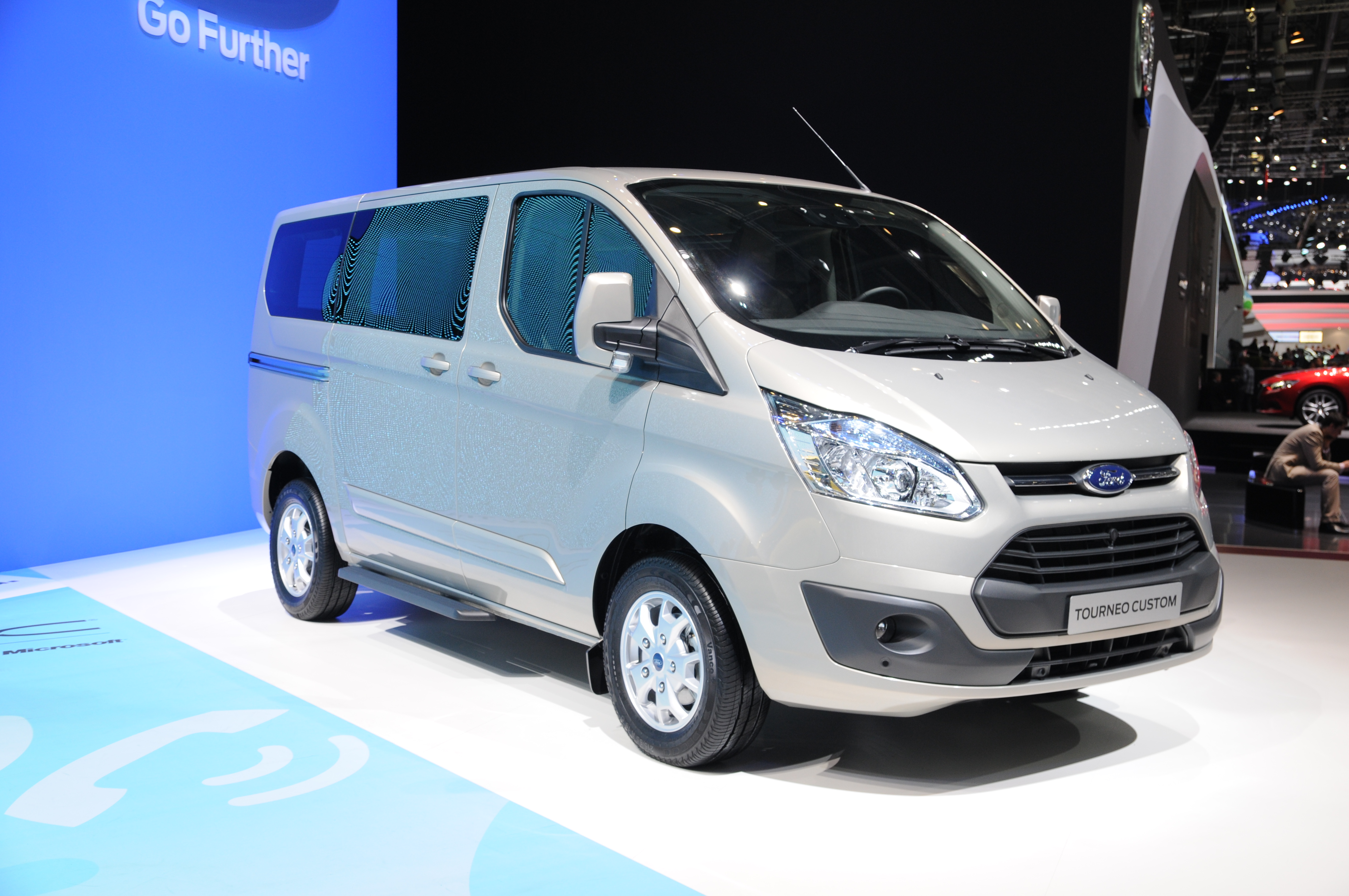 Geneva Motor Show 2013 (photos taken on the first press day)